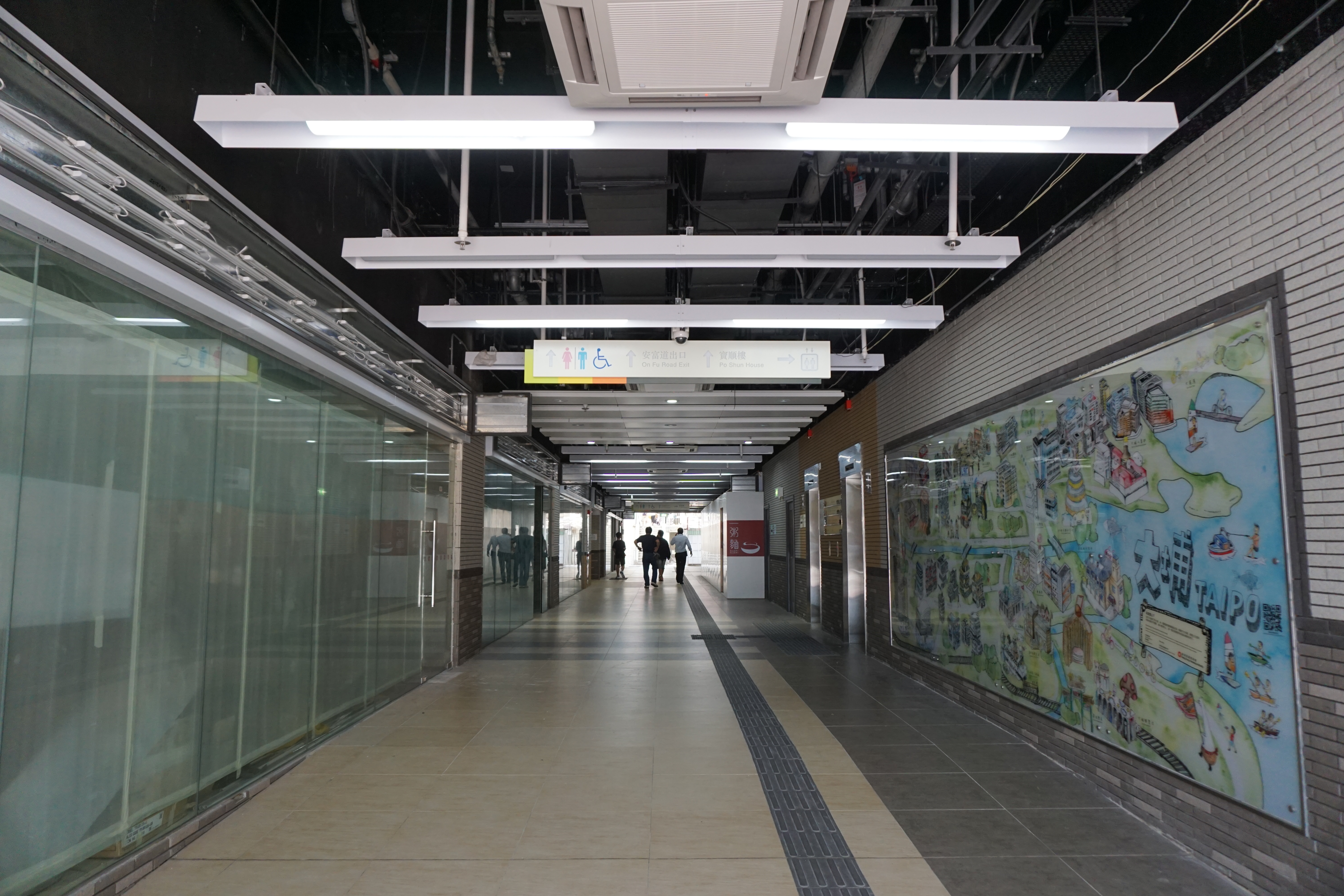 Po Heung Estate in Tai Po, Hong Kong.